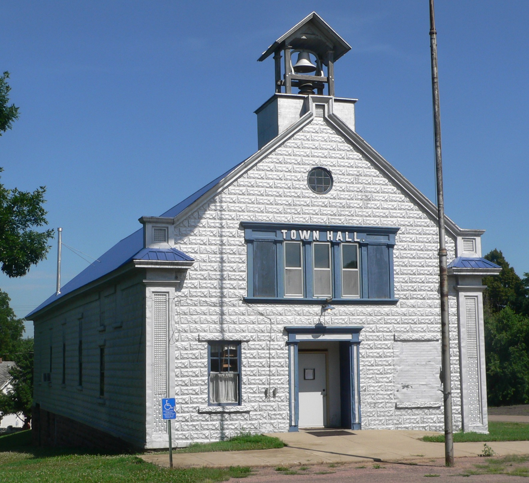 Volin, South Dakota, town hall at northeast corner of Main Street and Garfield Avenue; seen from the west-northwest, across Main.